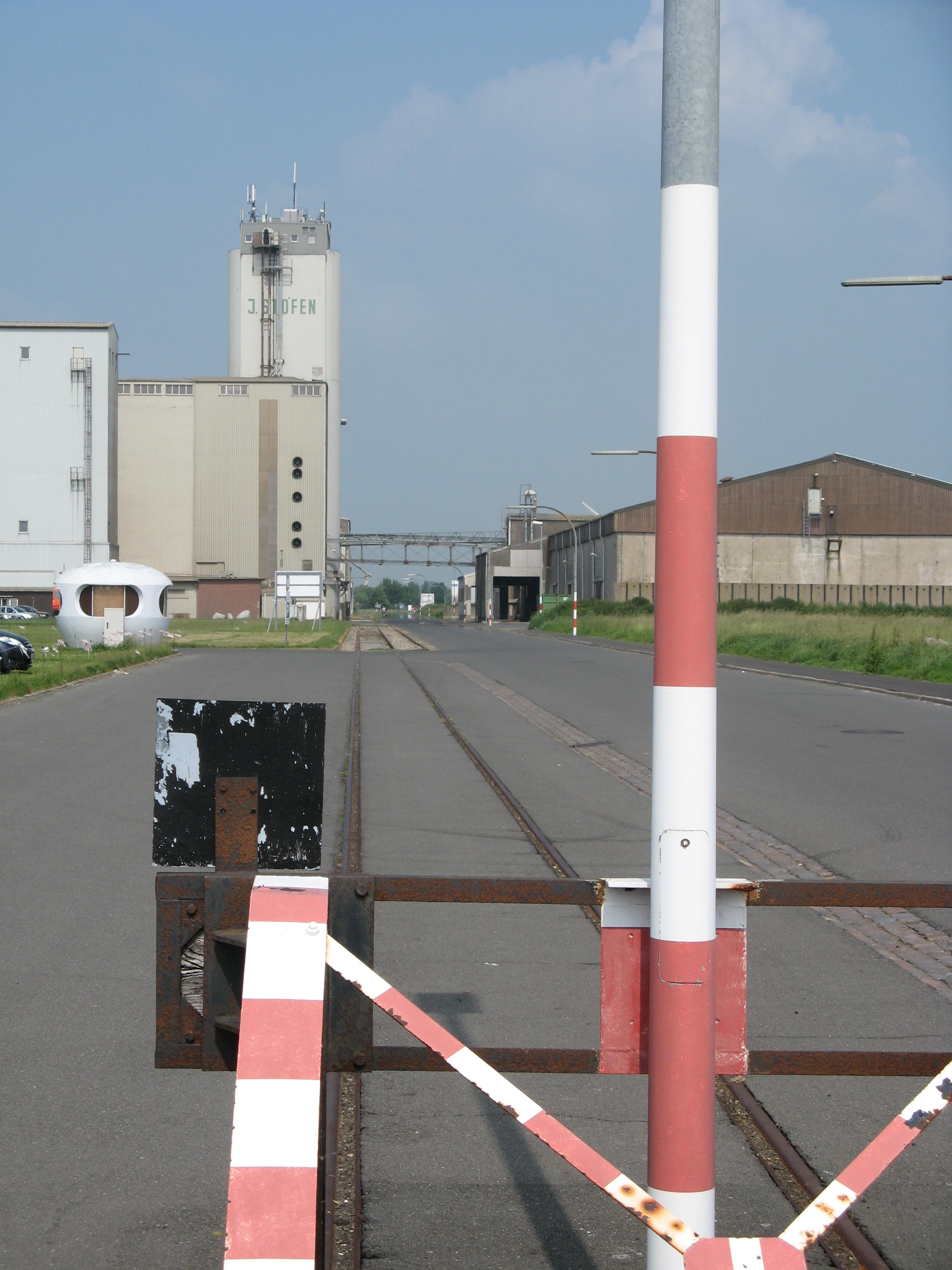 büsum: harbour-train-station